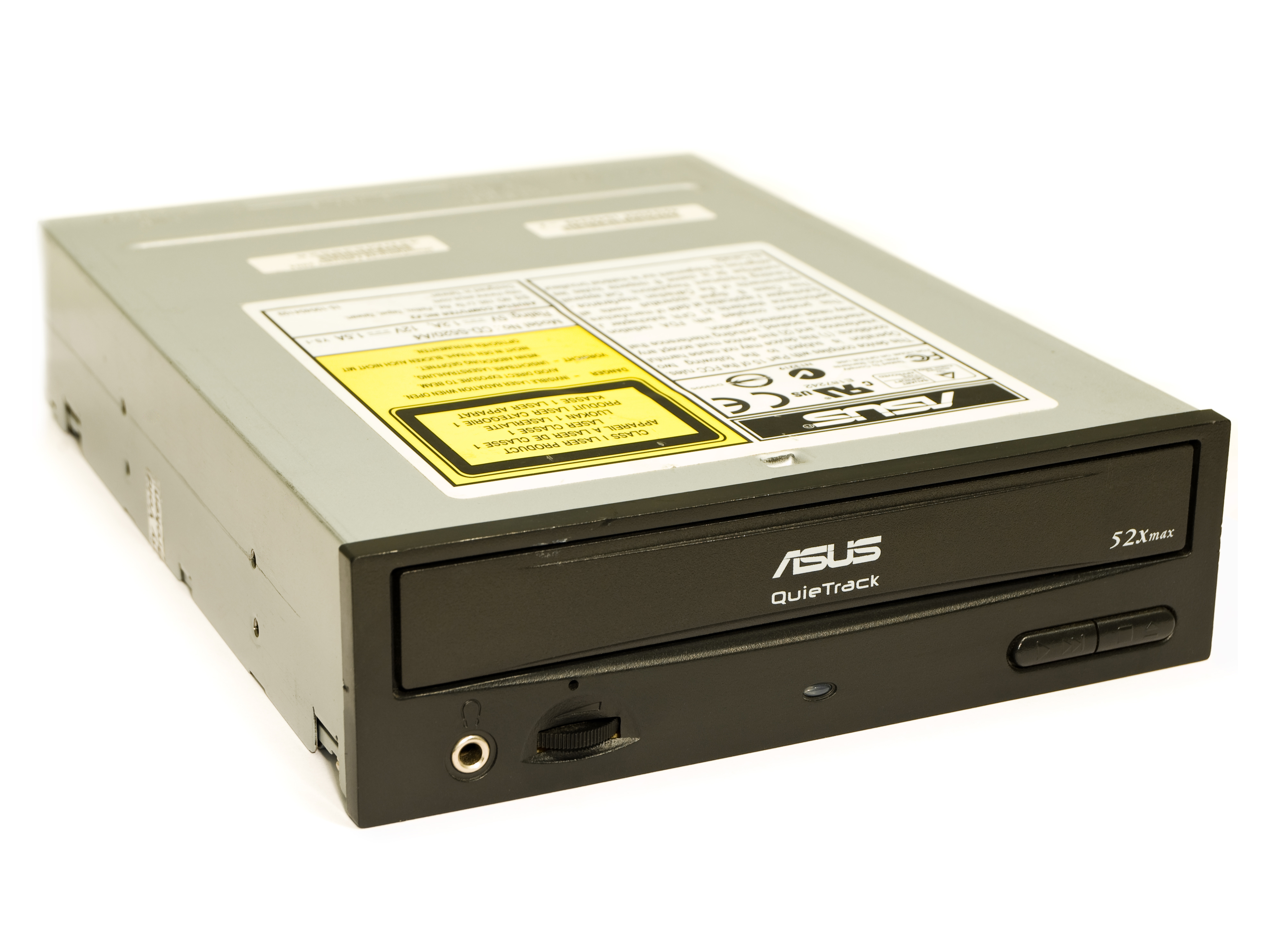 Image of an ASUS CD-ROM Drive CD-S520/A4